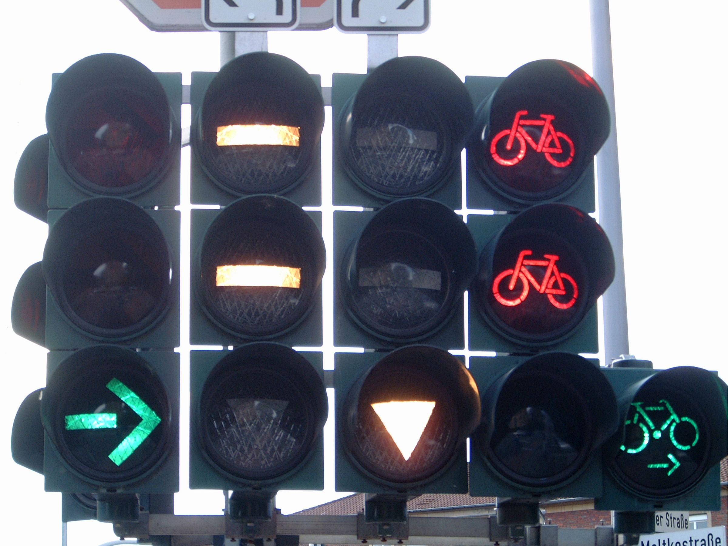 Complex traffic light for cars, bicycles and buses in Germany (Münster).